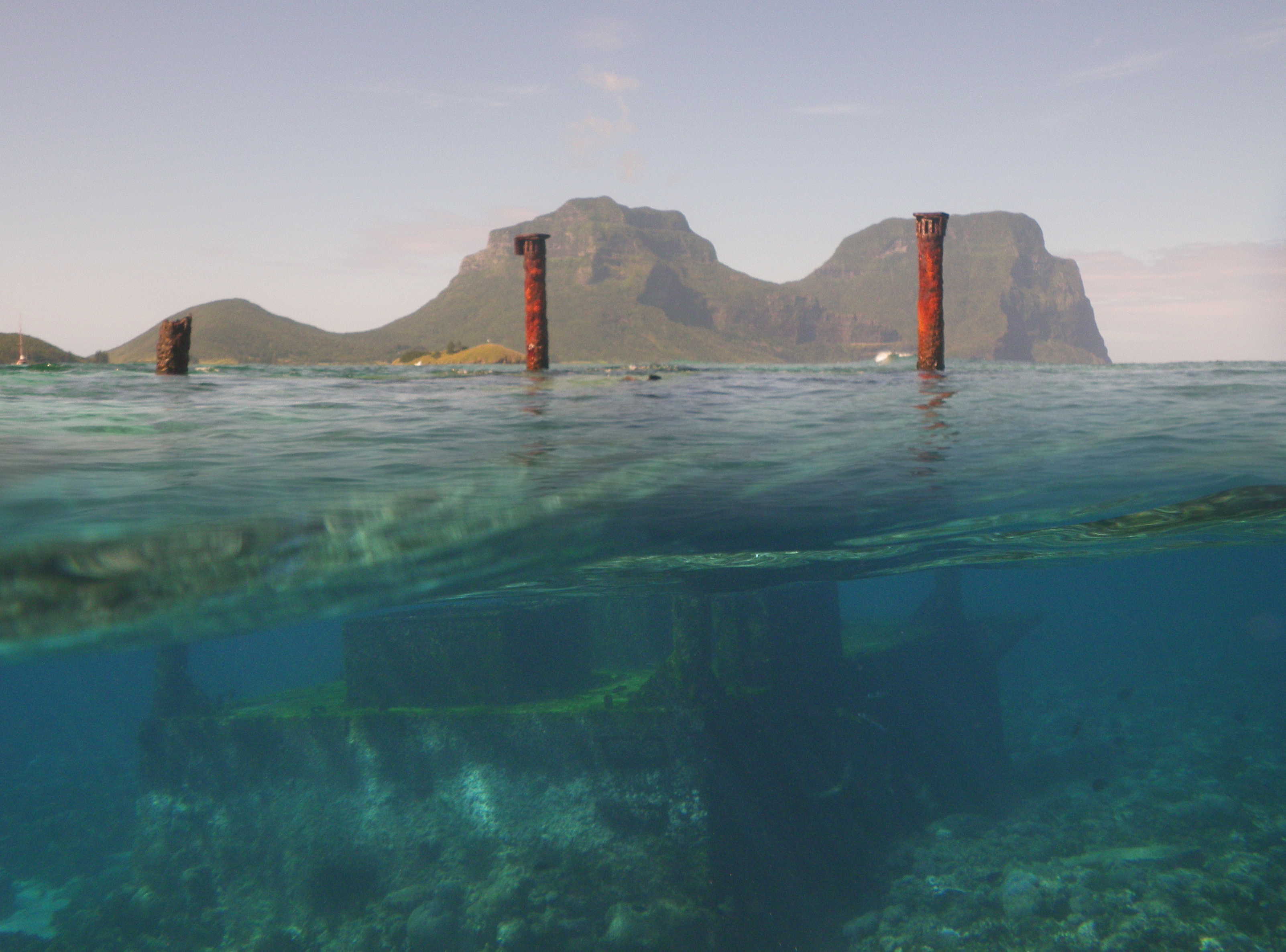 North Bay, Lord Howe Island, composite image of shipwreck and island.